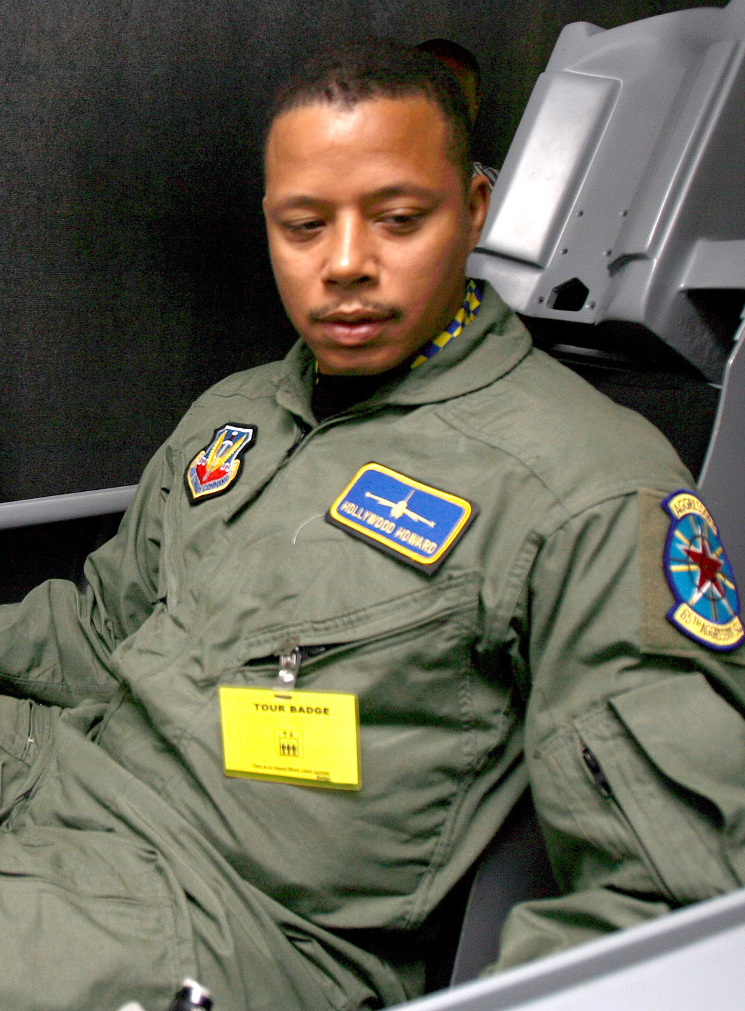 United States actor Terrence Howard receiving instruction in an F-16 Fighting Falcon simulator to help prepare him for his role in the movie "Iron Man".